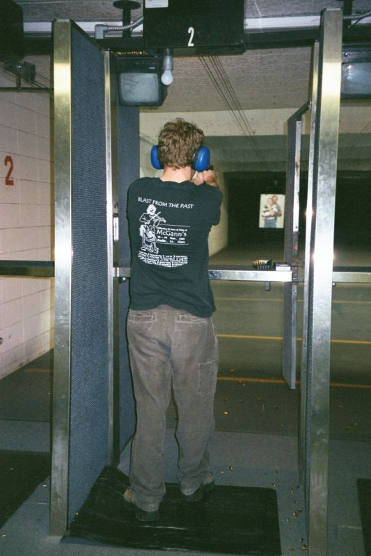 Gun stand practice